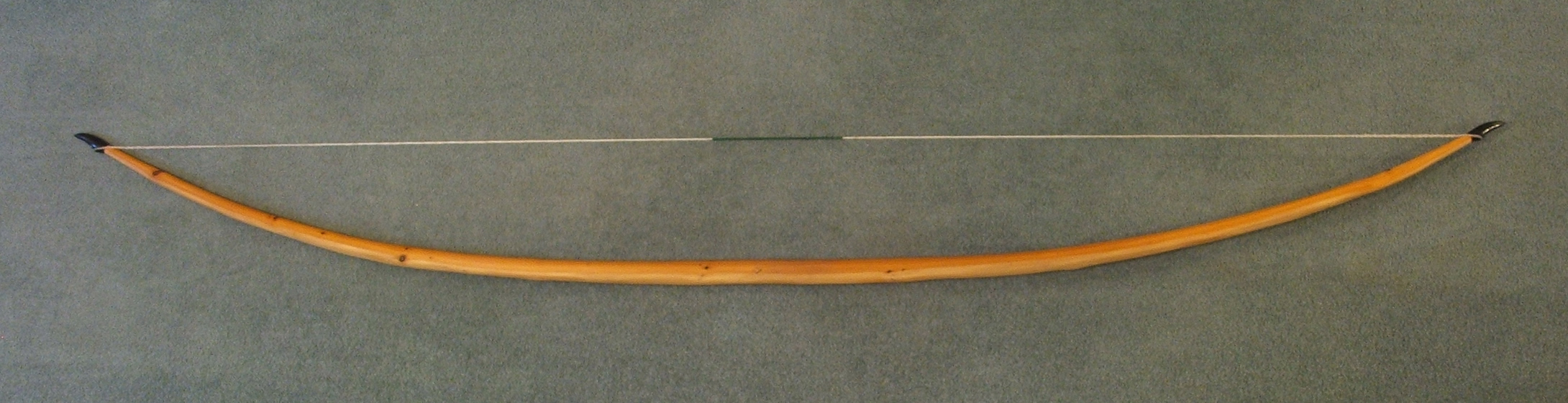 English Yew longbow (105 lbf at 32 inches). Photo taken by me, James Cram, and released into the public domain.